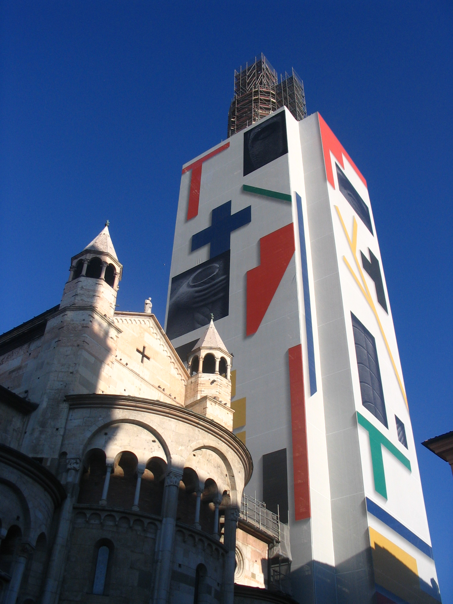 Picture of the Ghirlandina bell tower in Modena, Italy, as it currently appears wrapped up in Mimmo Palladino's cover.